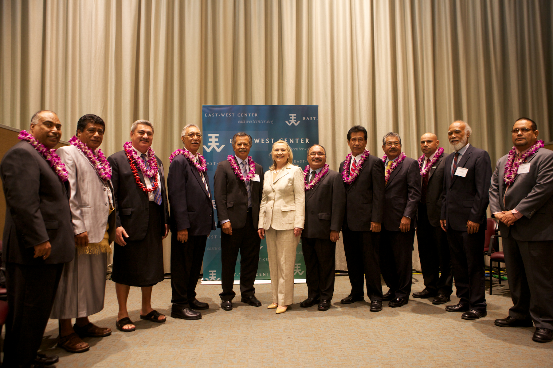 U.S. Secretary of State Hillary Rodham Clinton meets with delegates from the Pacific Islands in at the East West Center in Honolulu, Hawaii, on November 10, 2011. From Left to Right: Solomon Islands' Permanent Representative to the United Nations Colin Beck; Prime Minister of Tonga Sialeʻataongo Tuʻivakanō; Samoa Deputy Prime Minister Fonotoe Nuafesili Pierre Lauofo; Premier Toke Talagi of Niue; Prime Minister Henry Puna of the Cook Islands; U.S. Secretary of State Hillary Rodham Clinton (center); Prime Minister Peter O'Neill of Papua New Guinea; President Manny Mori of the Federated States of Micronesia; President Johnson Toribiong of Palau; Unidentified dignitary; Tonga Parliament member Dr. Sitiveni Halapua; and Kiribati Minister of Finance Natan Teewe (far right).